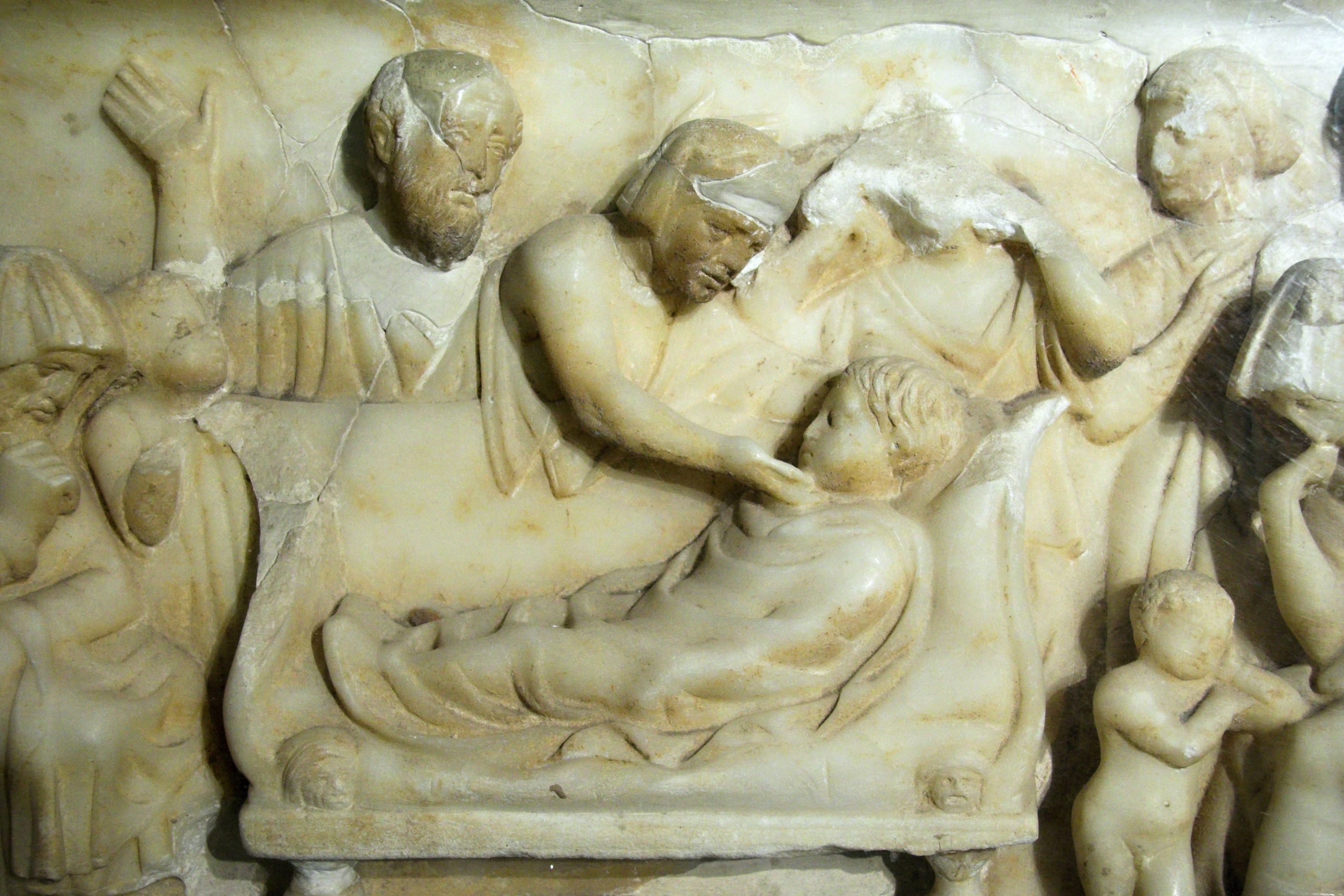 Sarcophagus in marble, decorated in relief on three sides for a child. Mourning scene for a child. An important work from a Roman workshop, 100-200 AD. Roman cemetery outside Porta Aurea at Agrigento. Archaeological Museum of Agrigento.